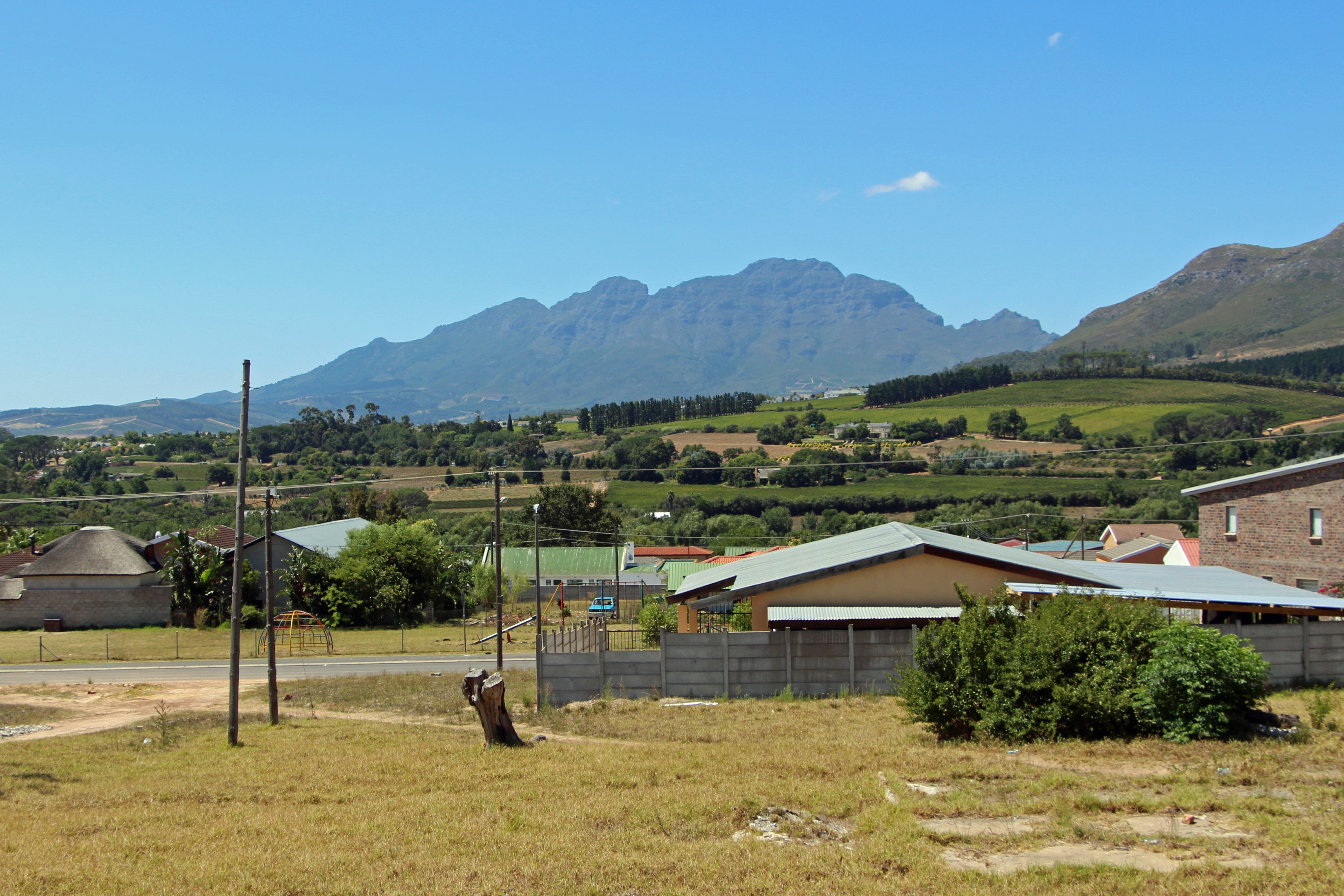 View from the top of Jamestown towards Stellenbosch with Simonsberg mountain in the background